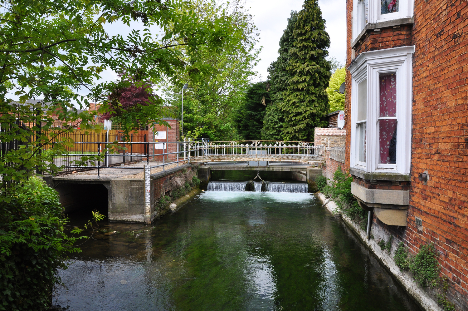 Weir on the River Slea, Sleaford, Lincolnshire